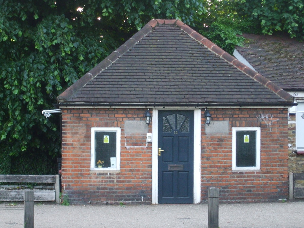 The former Gate House to Ham Common on the A307, Upper Ham Road. The inscription to the left states: "Erected by the inhabitants of Ham and Hatch, 1771". The house and gate was operated as an almshouse, the gate was to prevent animals straying off the common, not a toll gate. There were two other similar gates bounding the common. The inscription to the right states "Restored by the Hon. Mrs Algernon Tollemache, 1892". The building was further restored in 1968.